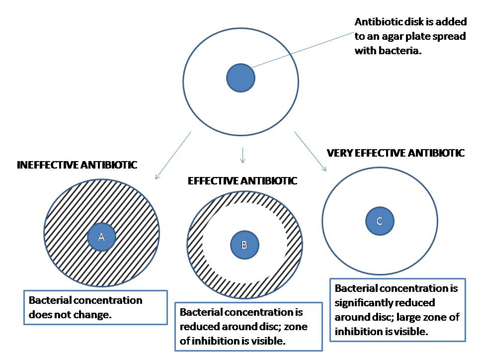 A closer look at the results of an agar disk diffusion method.